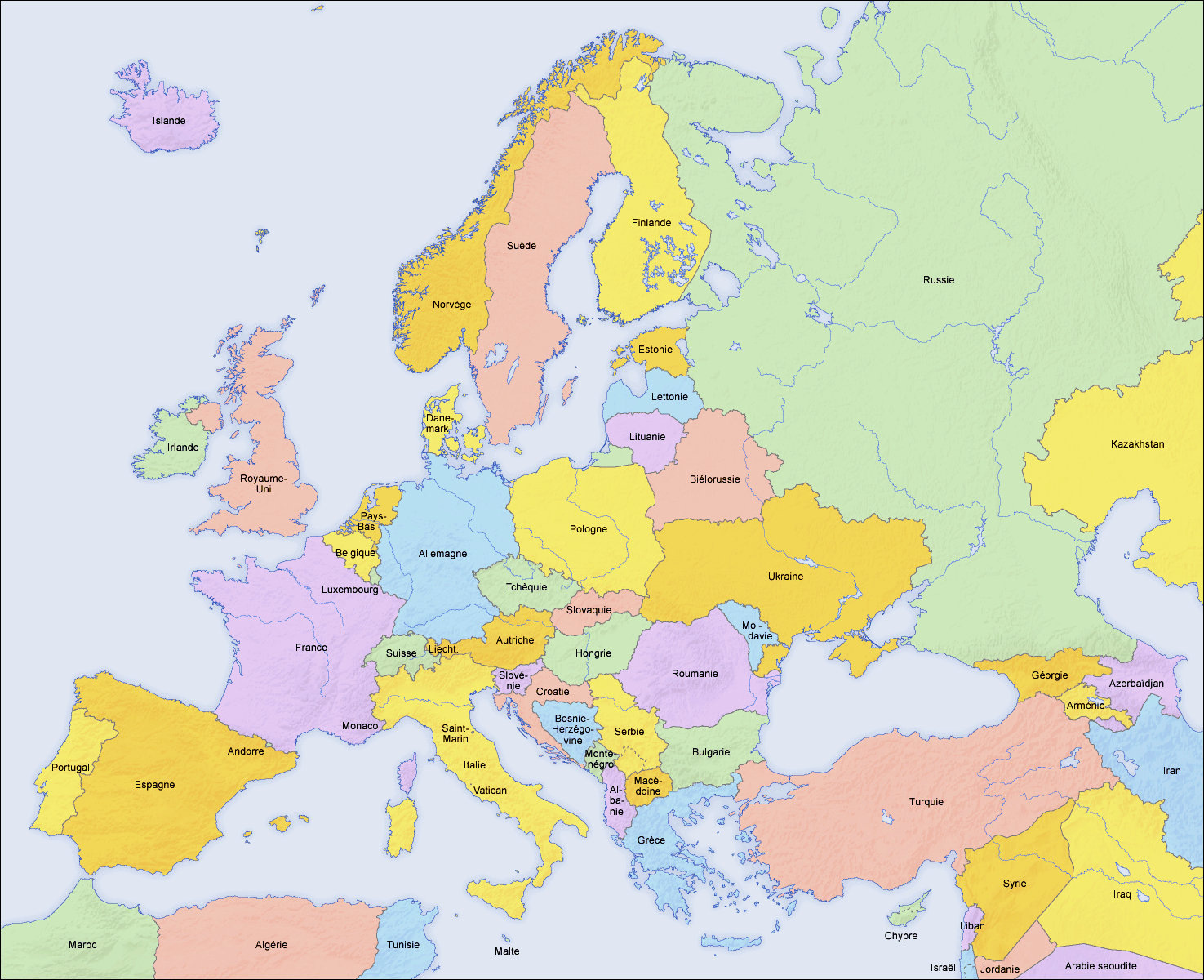 Map of countries in Europe and the surrounding region